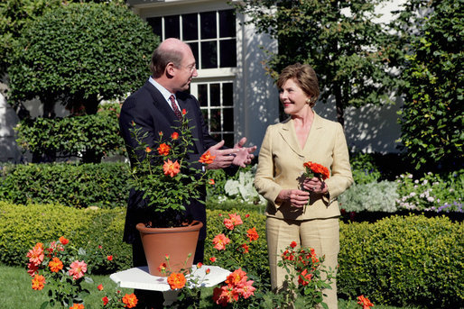 Mrs. Laura Bush smiles at Bill Williams, President and CEO of Harry & David Holdings, Monday, October 2, 2006, as she participates in a ceremony for the unveiling of the Laura Bush rose in The First Lady’s Garden at The White House. Founded in 1872, Jackson & Perkins is a leading hybridizer of garden roses and has launched The Laura Bush rose as part of the First Ladies Rose Series. The rose is a floribunda rose and has light yellow buds that open to a smoky coral color with yellow on the reverse petal. White House photo by Shealah Craighead